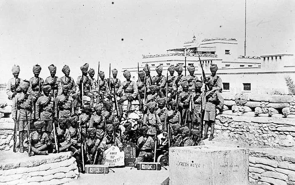 The 117th Mahrattas, originally raised in 1800, were for many years known as the 17th Regiment of Bombay Native Infantry before being re-designated as the 117th in 1903. They assumed the title 5th Battalion The Mahratta Light Infantry during the 1922 restructuring of the Indian Army.